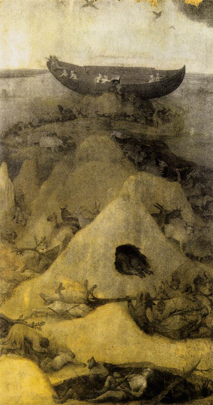 Fragment (inner right wing) of a triptych. See File:The Hell and the Flood P4.jpg for the outer right wing and File:The Hell and the Flood P1.jpg and File:The Hell and the Flood P3.jpg for the left wing.